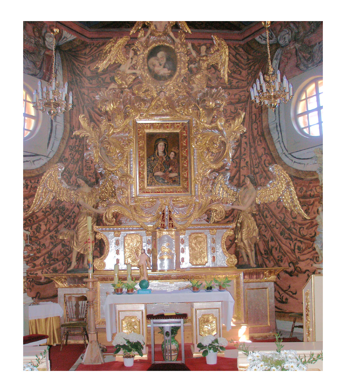 Gąsawa, Poland. St Nicolas church, main altar. Photo taken May 2007.